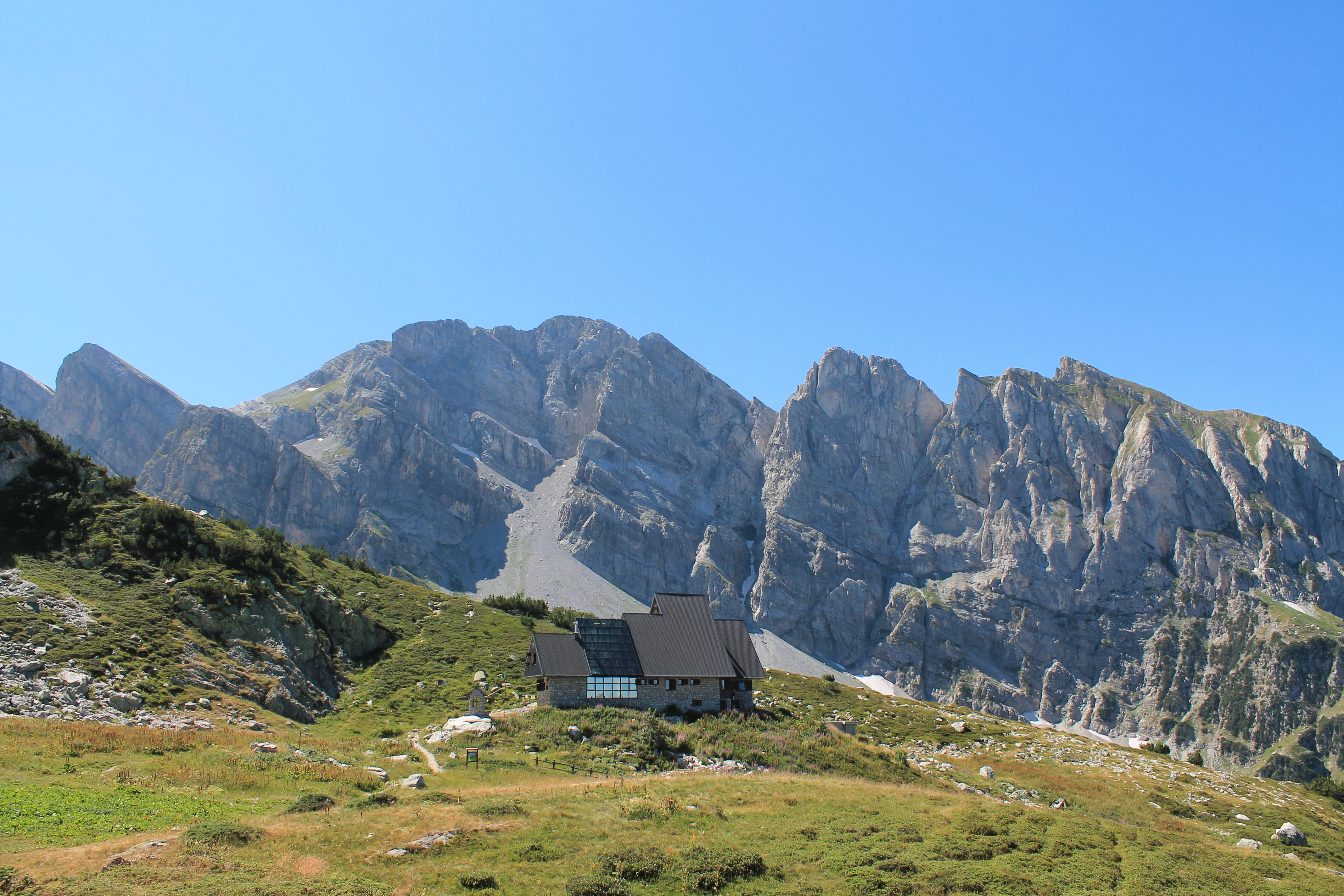 View of the Rifugio Piero Garelli (alpine hut "Piero Garelli") (Italy)